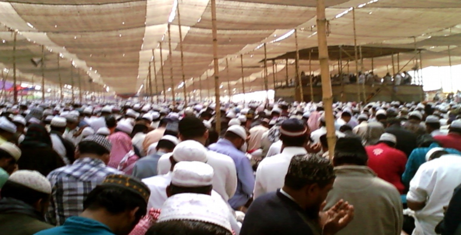 At the moment of akheri monajat